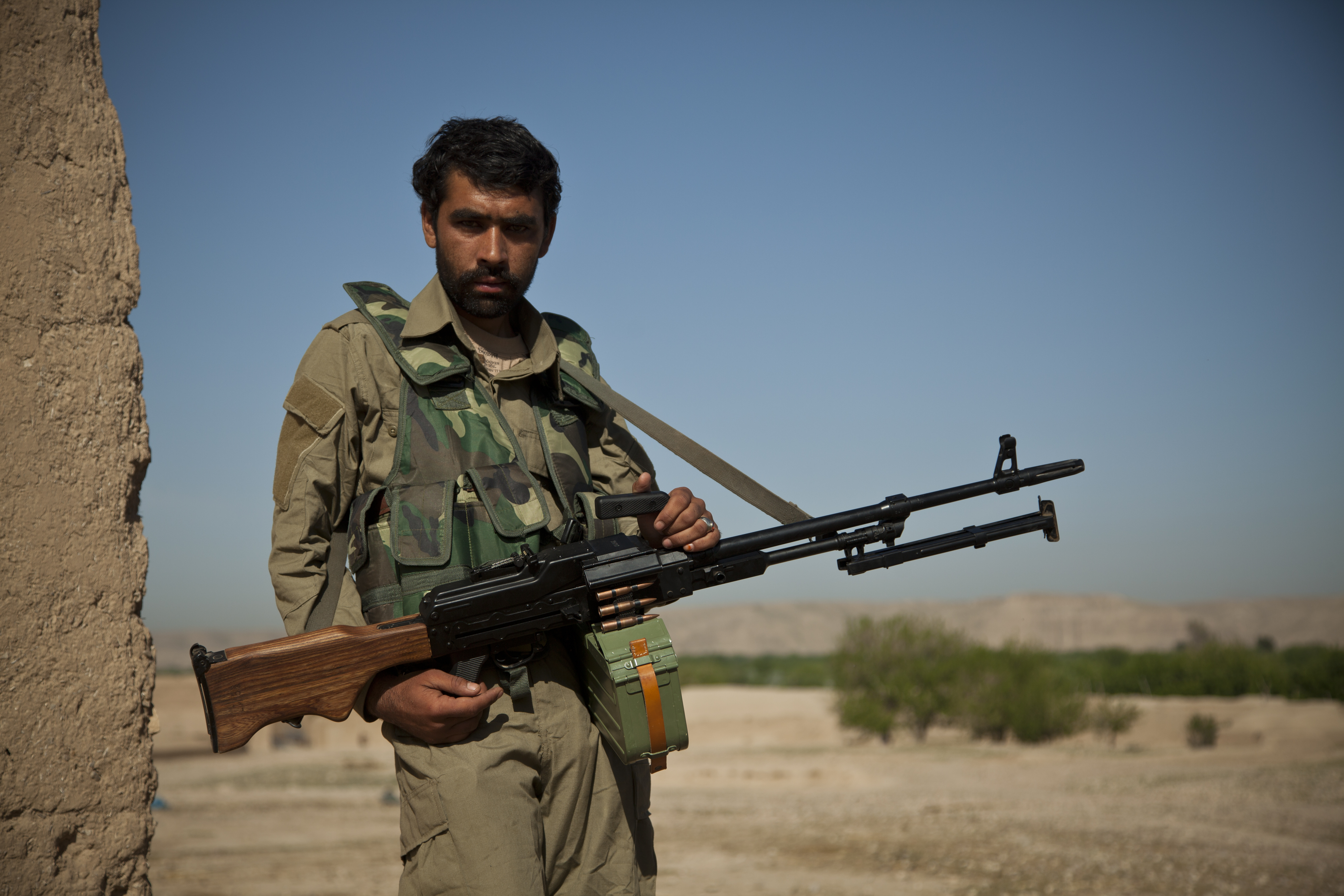 An Afghan Local Police (ALP) member provides security as Afghan National Army special forces soldiers help ALP members build a checkpoint in Helmand province, Afghanistan, April 3, 2013. The ALP was tasked with serving rural areas with limited Afghan National Security Forces presence.